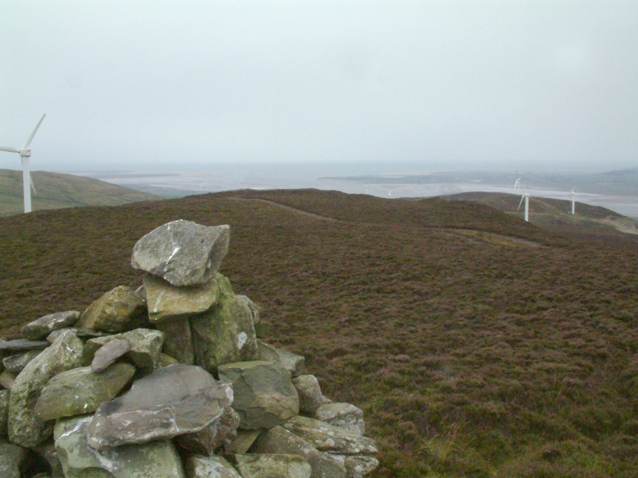 Windmills on Kirkby Moor, looking across the Duddon Sands. Photograph by Stephen Dawson, en:28 July en:2003.